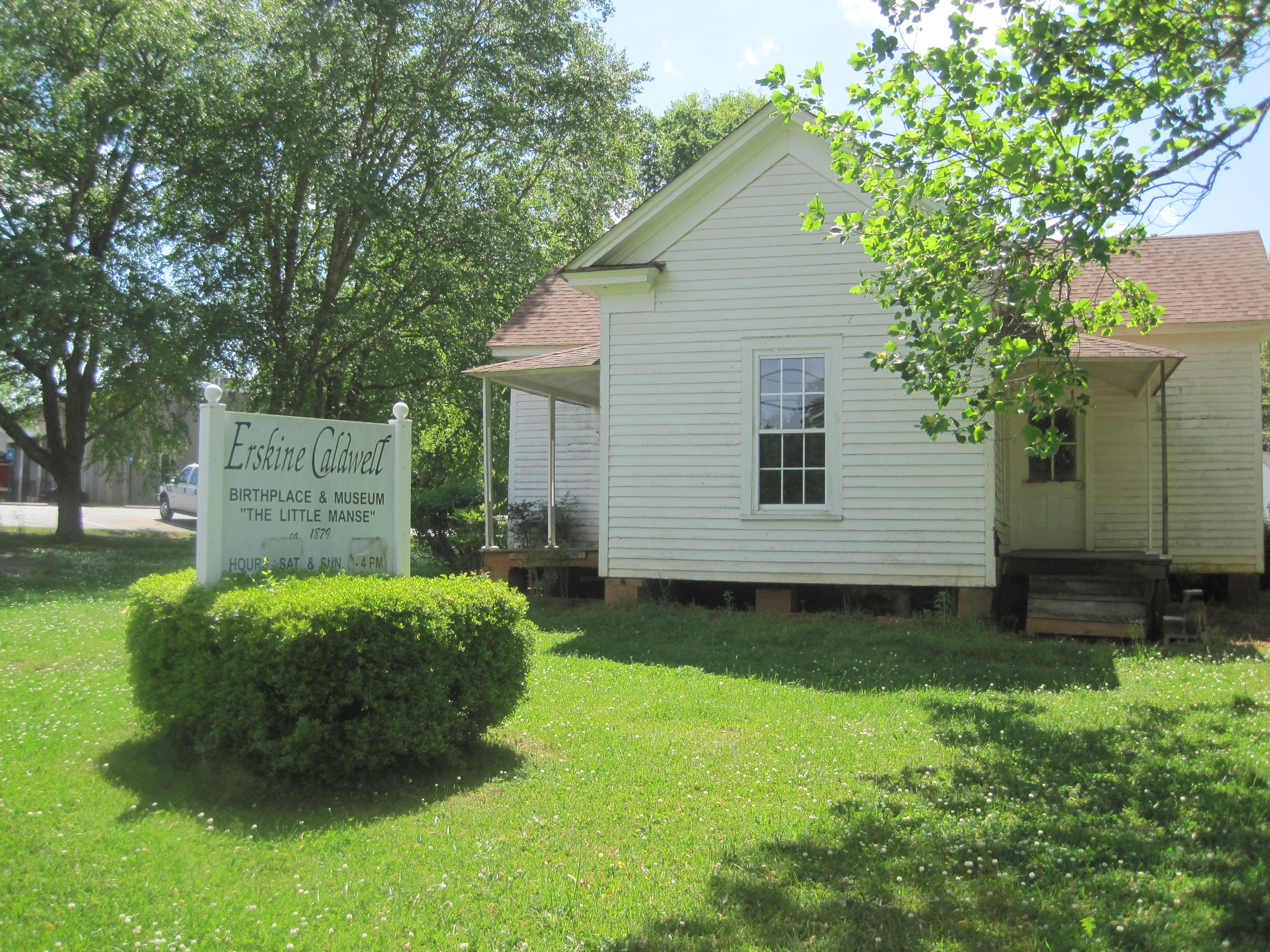 Erskine Caldwell's birth house and museum